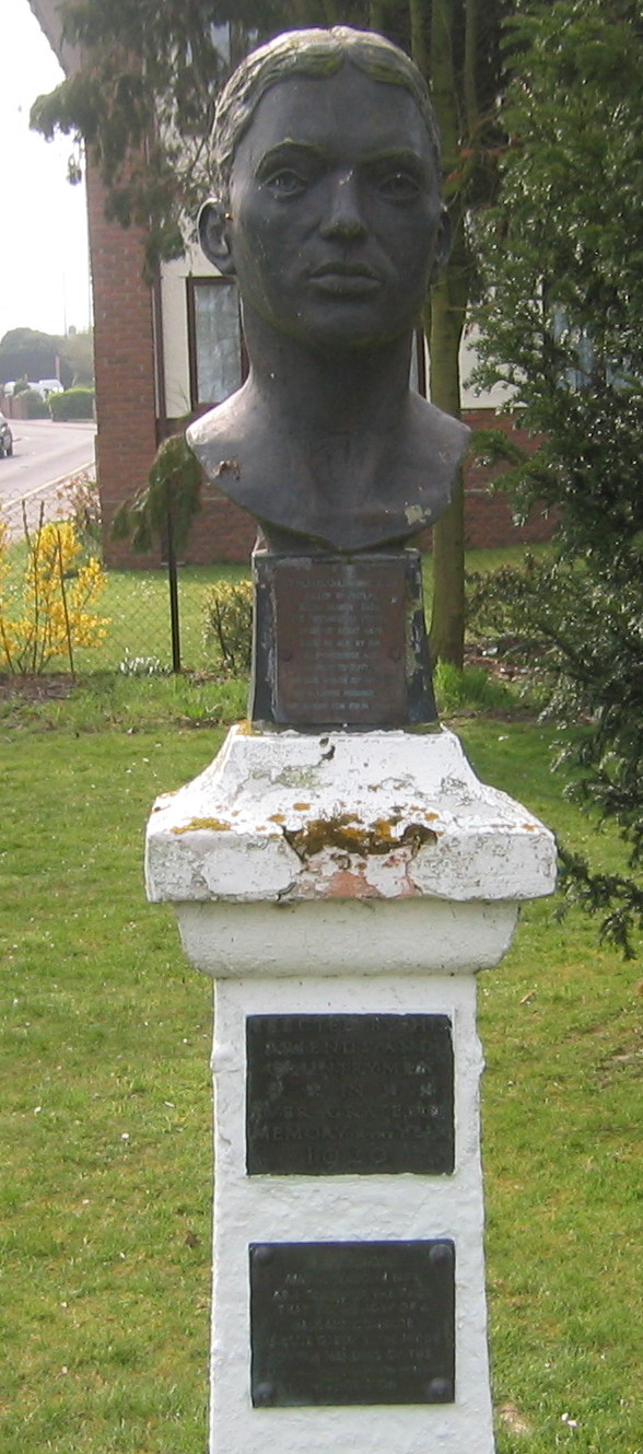 Herbert George Columbine memorial bust at Walton on the Naze, Essex.